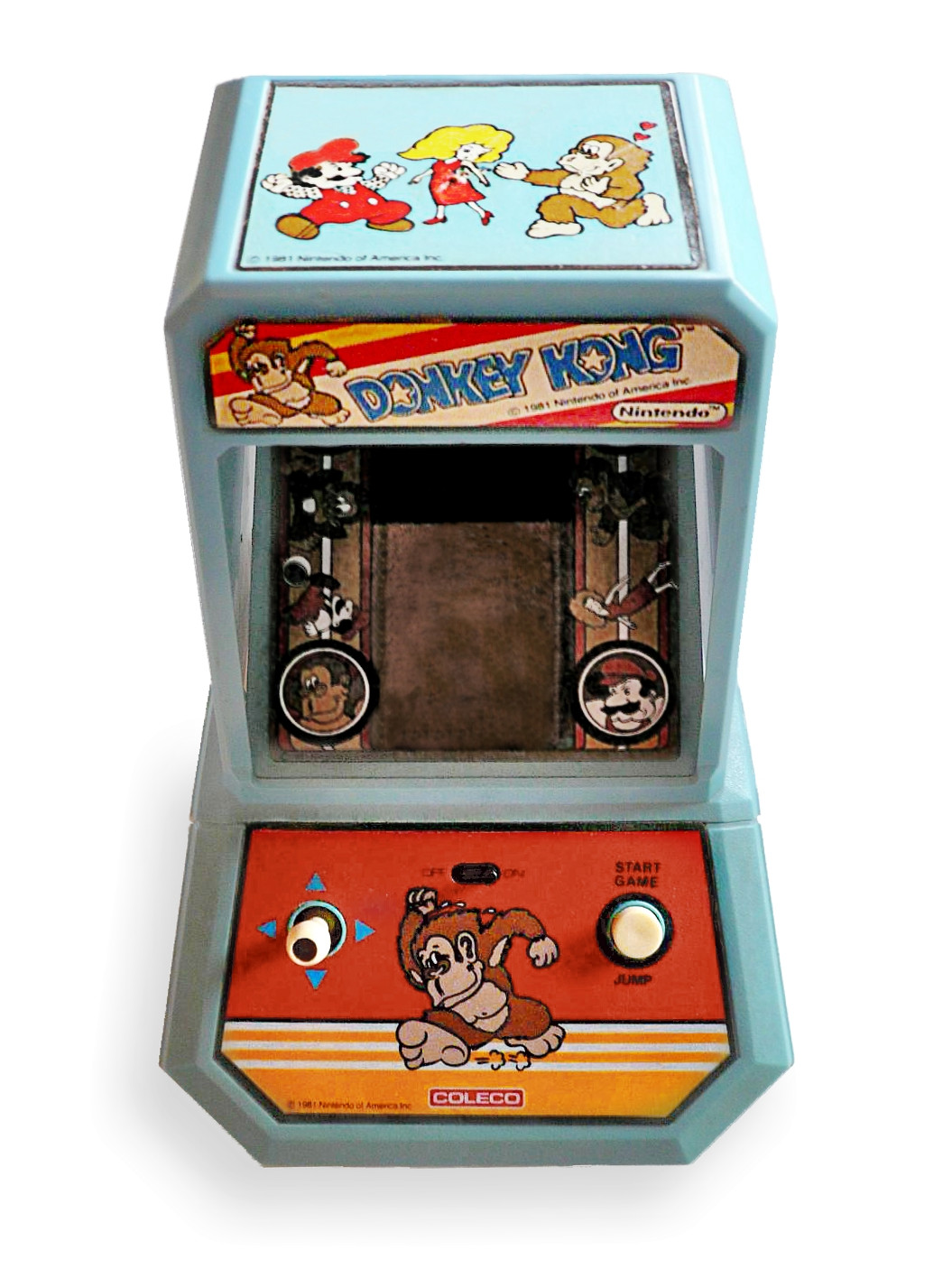 80's Donkey Kong tabletop.